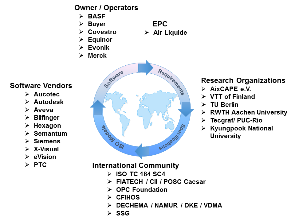 Overview DEXPI 2019